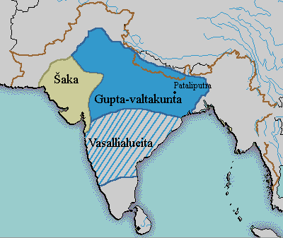 Guptaempire after Samudragupta in 370 AC